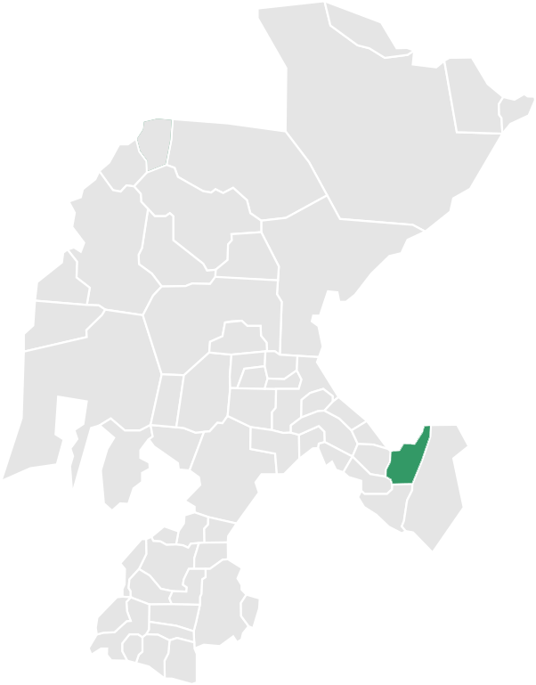 Map of the Municipality of Villa Hidalgo in Zacatecas, México.